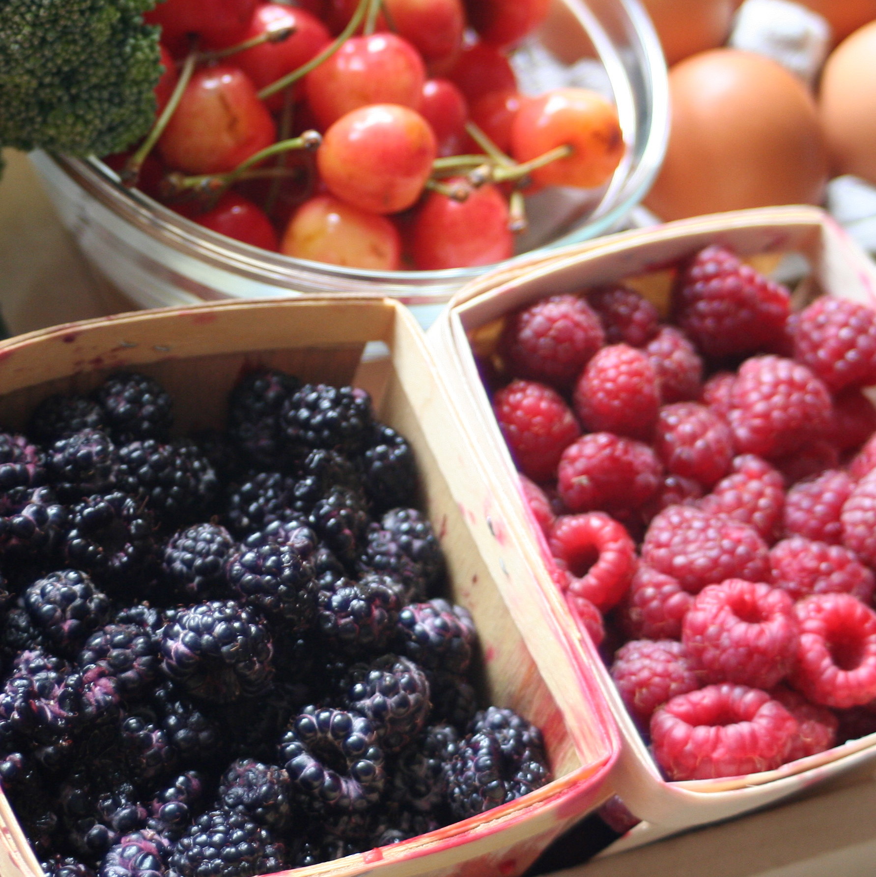 Two kinds of Raspberries and Rainer Cherries